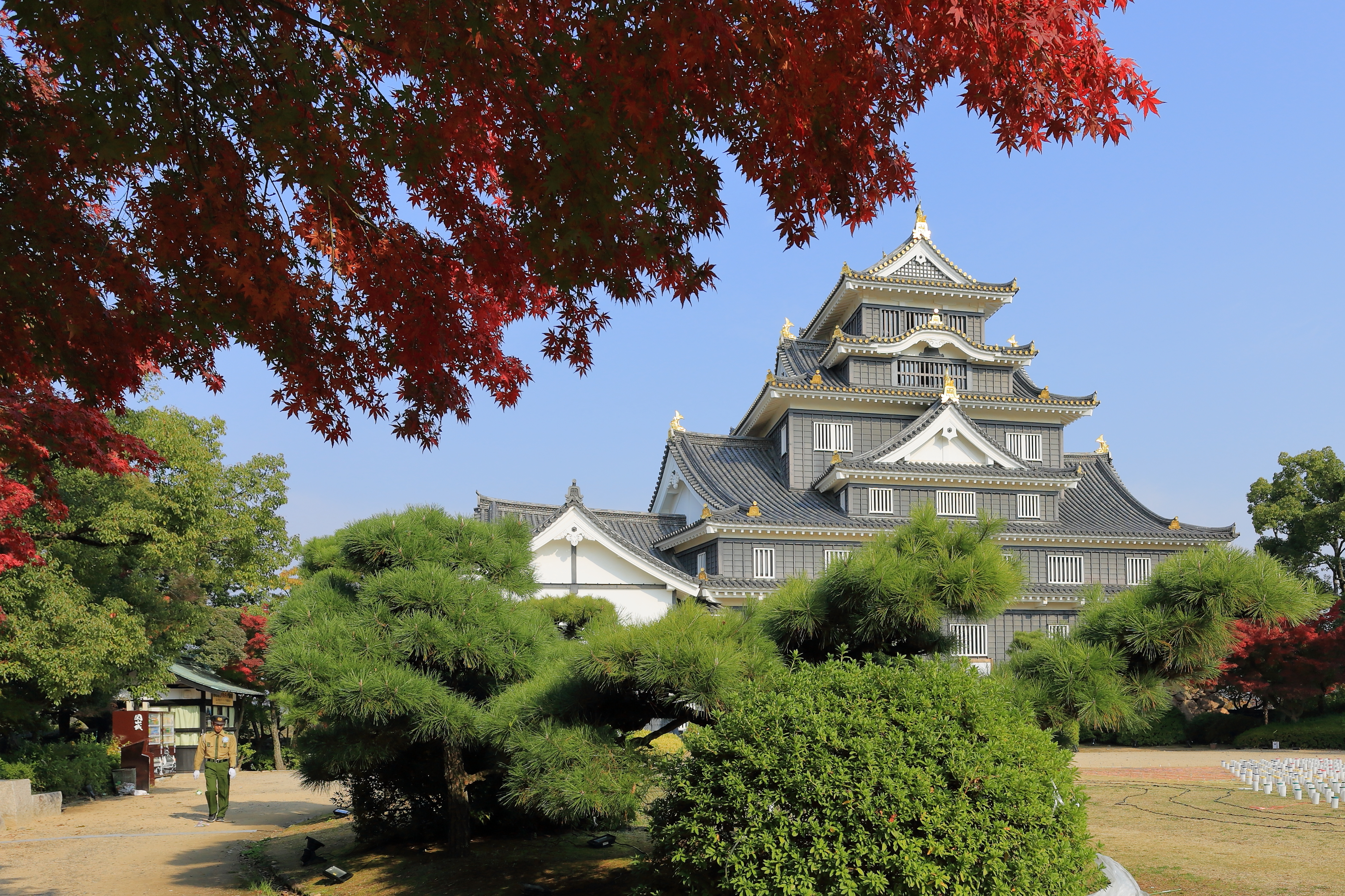 Okayama Castle is a Japanese castle in the city of Okayama.